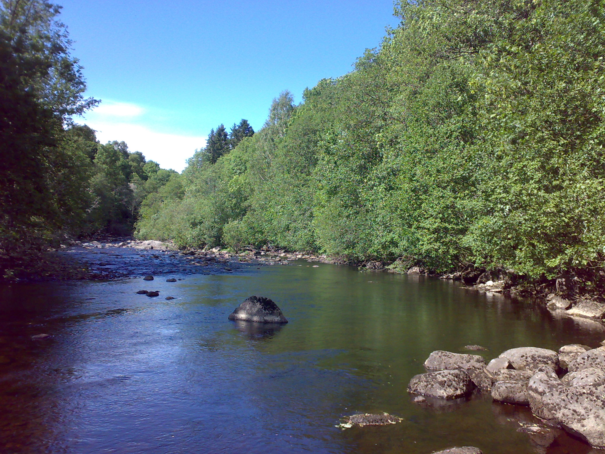 The Lysaker River, between Bærum and Oslo, Norway Norsk (bokmål): Lysakerelva som utgjør grensen mellom Bærum og Oslo